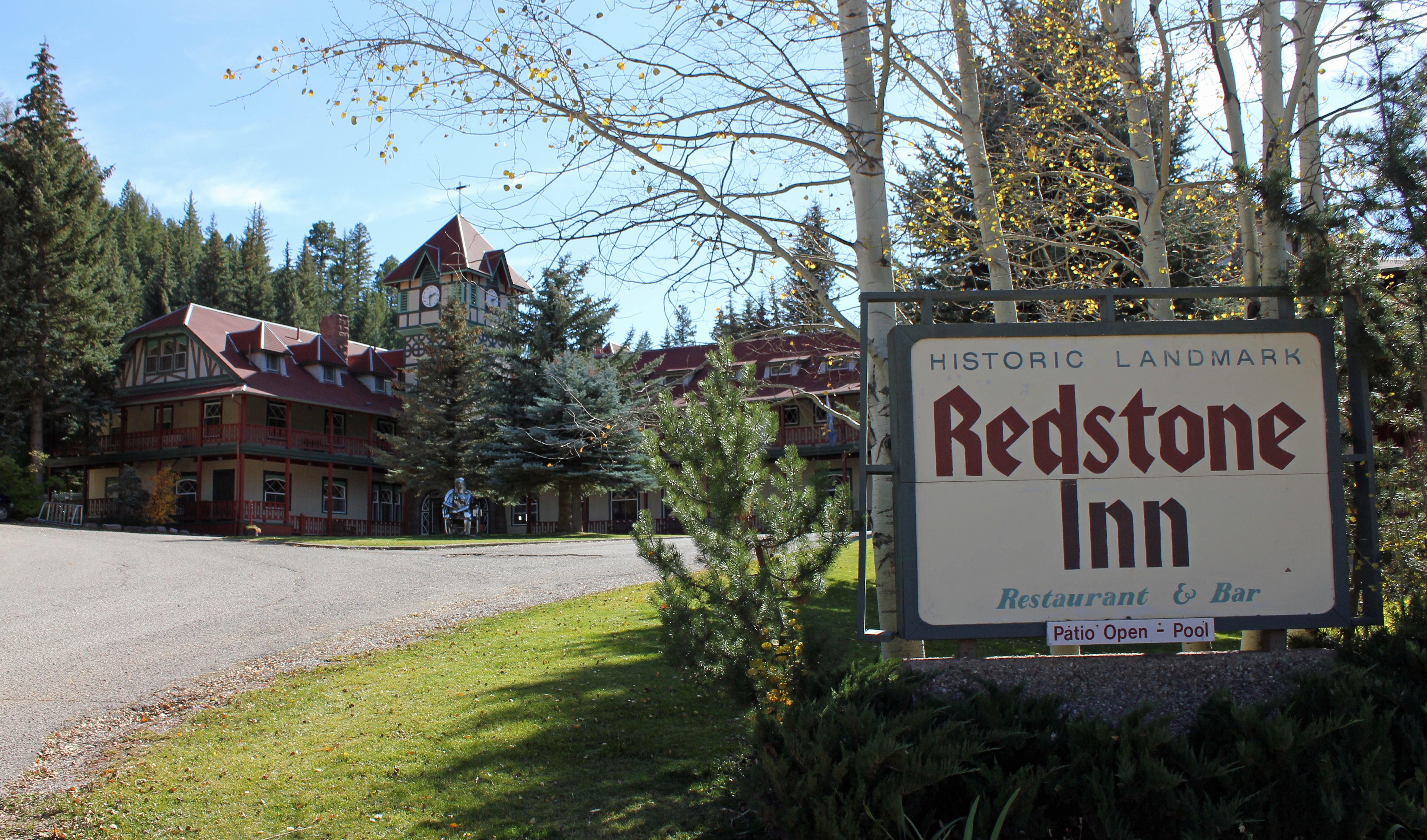 The Redstone Inn, located at 0082 Redstone Boulevard in Redstone, Colorado. The property is listed on the National Register of Historic Places.